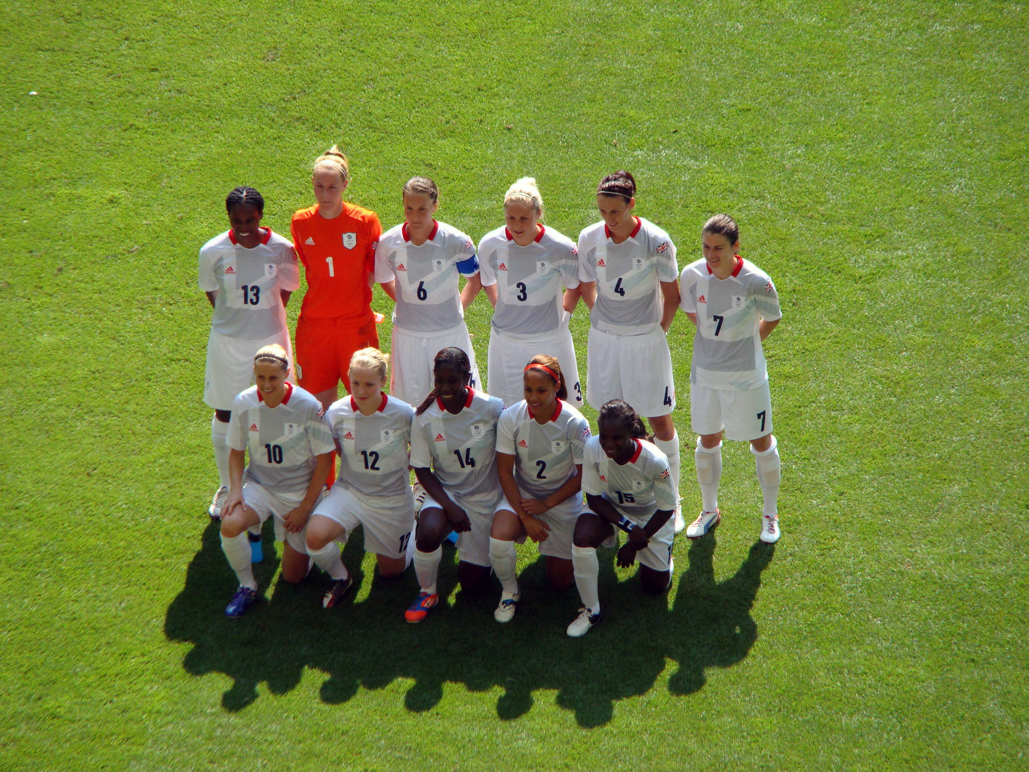 25/07/12 Womens Football, Olympic Games, Millennium Stadium, Cardiff, Wales